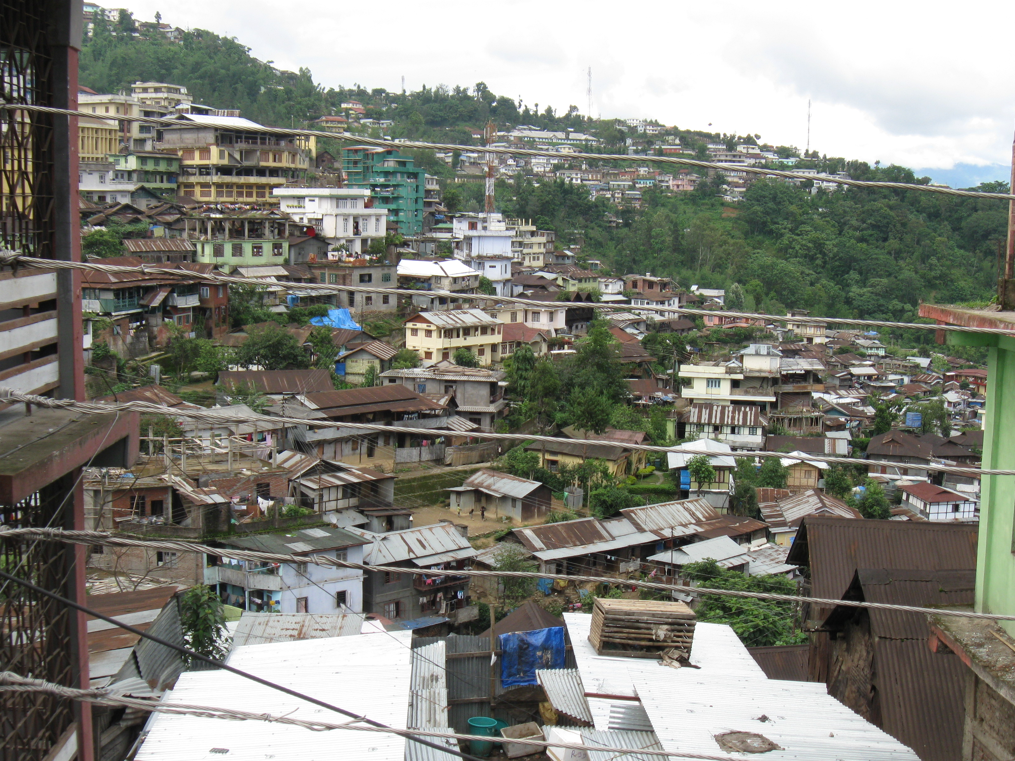 This the picture of surrounding of Kohima town